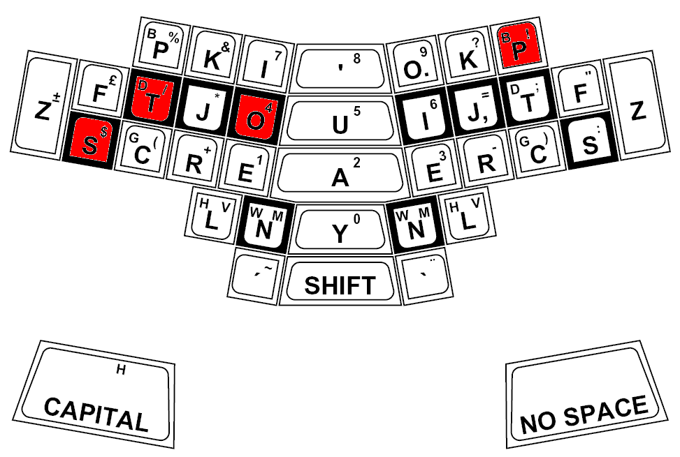 The keys to enter on w Velotype for the word stop